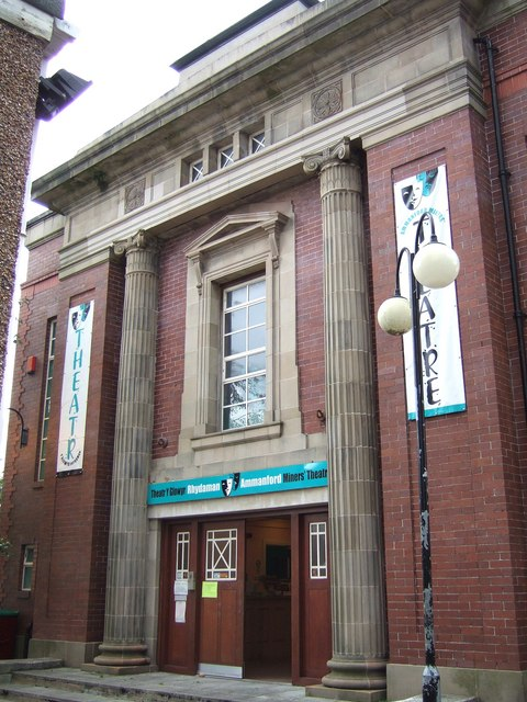 Miners' Theatre, Rhydaman/Ammanford Originally built in the early 1930's, with money raised by public subscription, as a cinema, its ornate interior decor with elaborate plaster moulding has recently been beautifully refurbished and it now operates as a venue for live entertainment. It is tucked away behind the Miners Welfare Club of which it was once part.